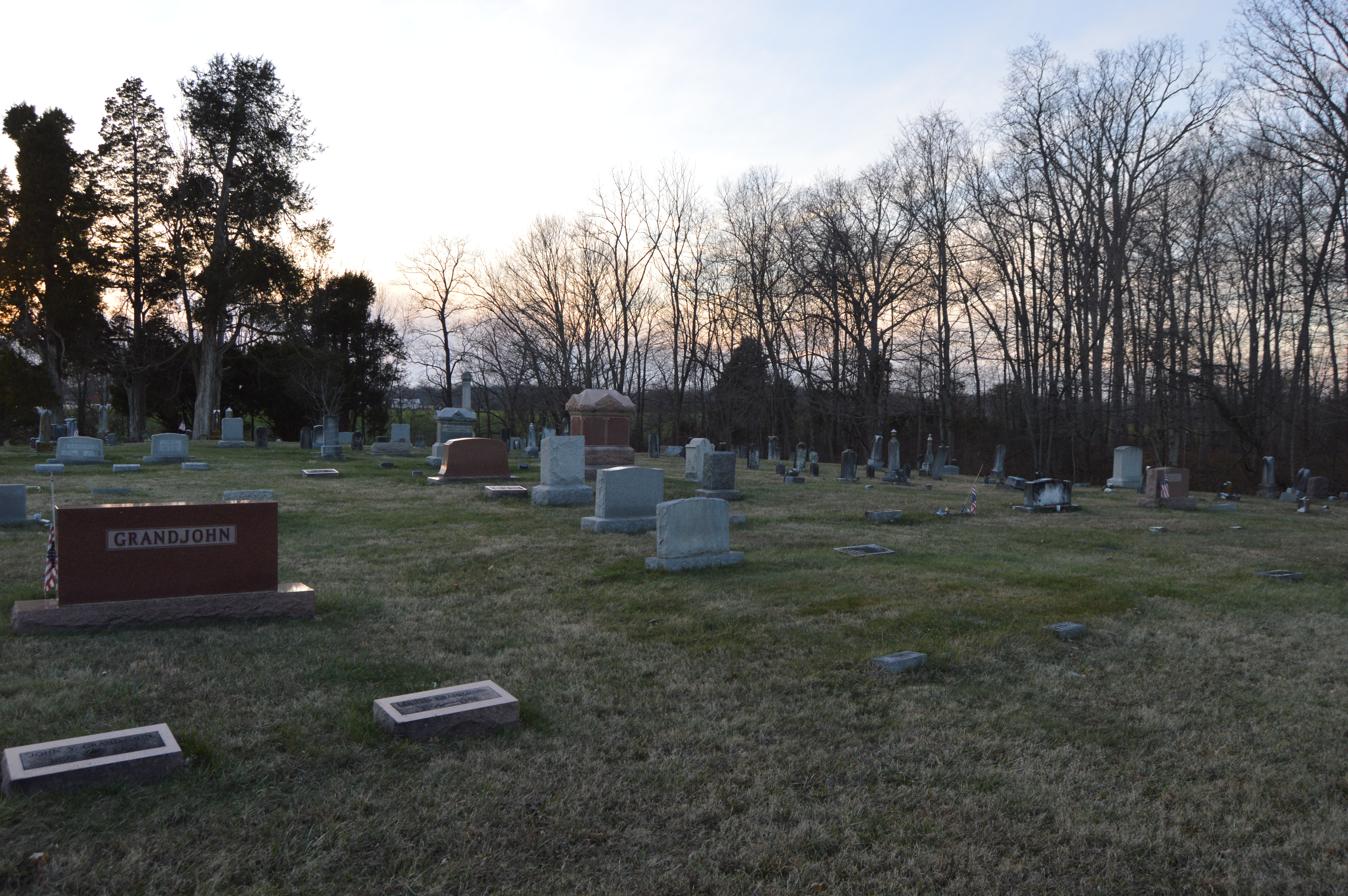 Graves in the Ebenezer Cemetery, located on the northern side of Sardinia-Mowrystown Road north of Sardinia in far southwestern Whiteoak Township, Highland County, Ohio, United States.